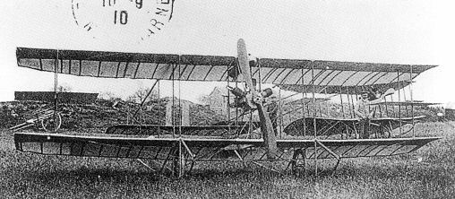 Cauldron Type A. No2 traner